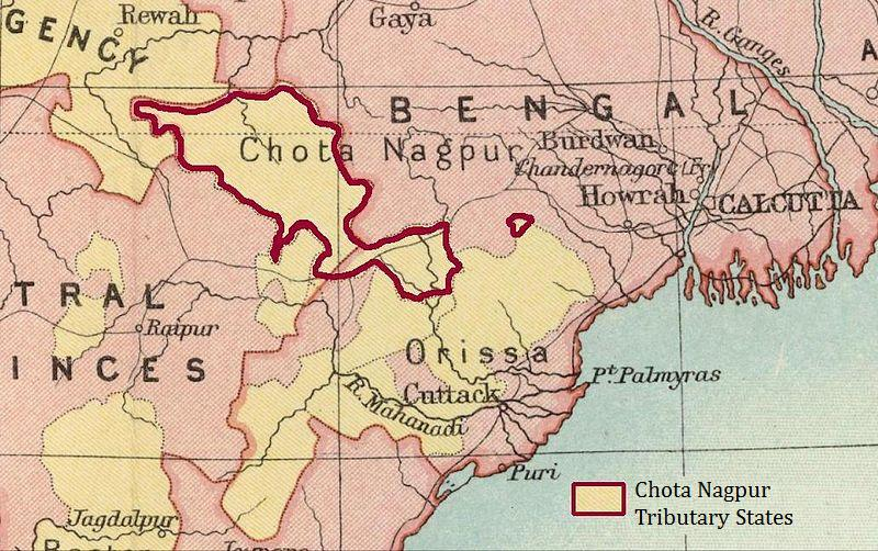 1909 Imperial Gazetteer of India map section highlighting the Chota Nagpur Tributary States.